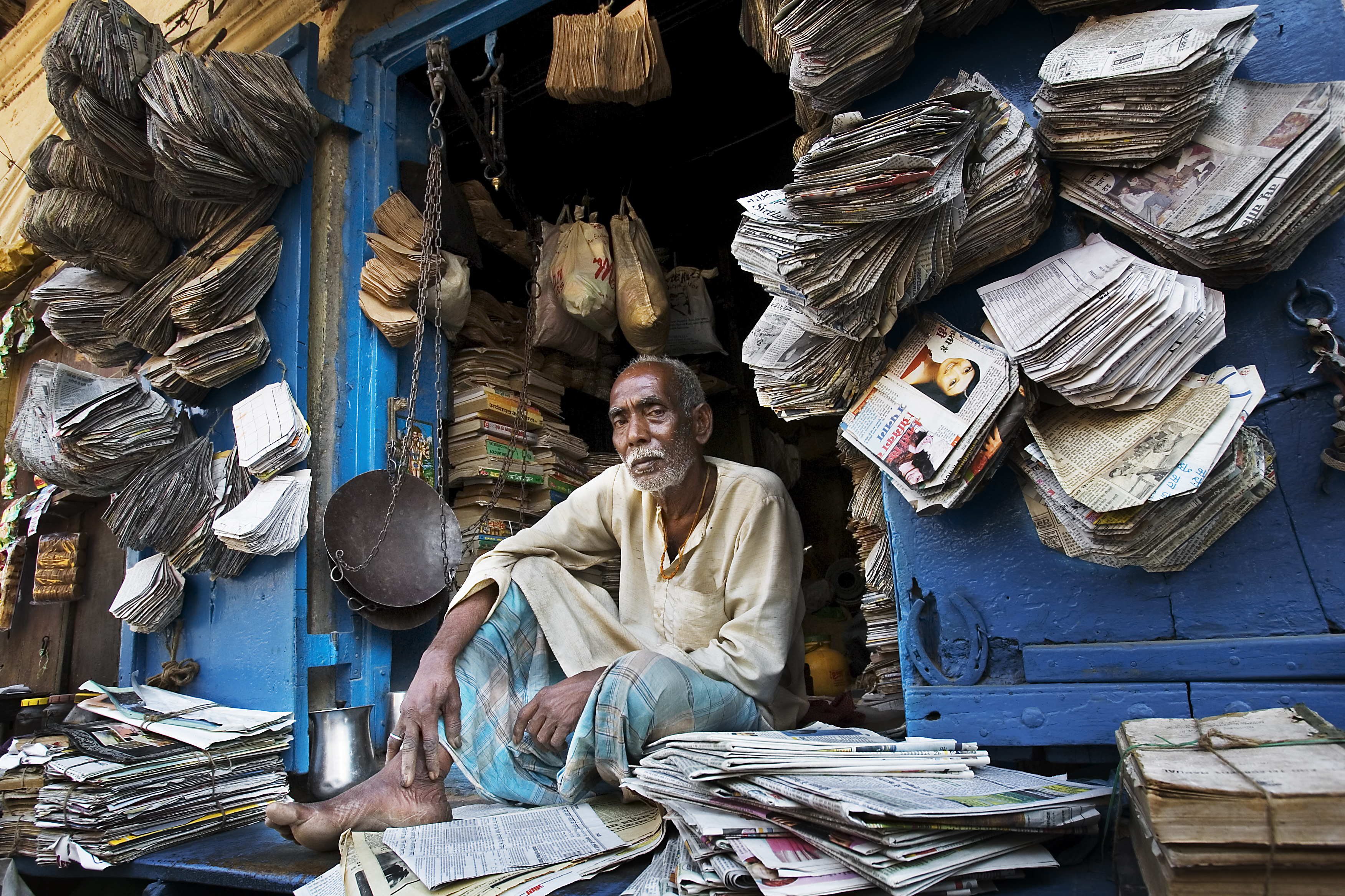 Paper bag maker and seller Varanasi Benares India